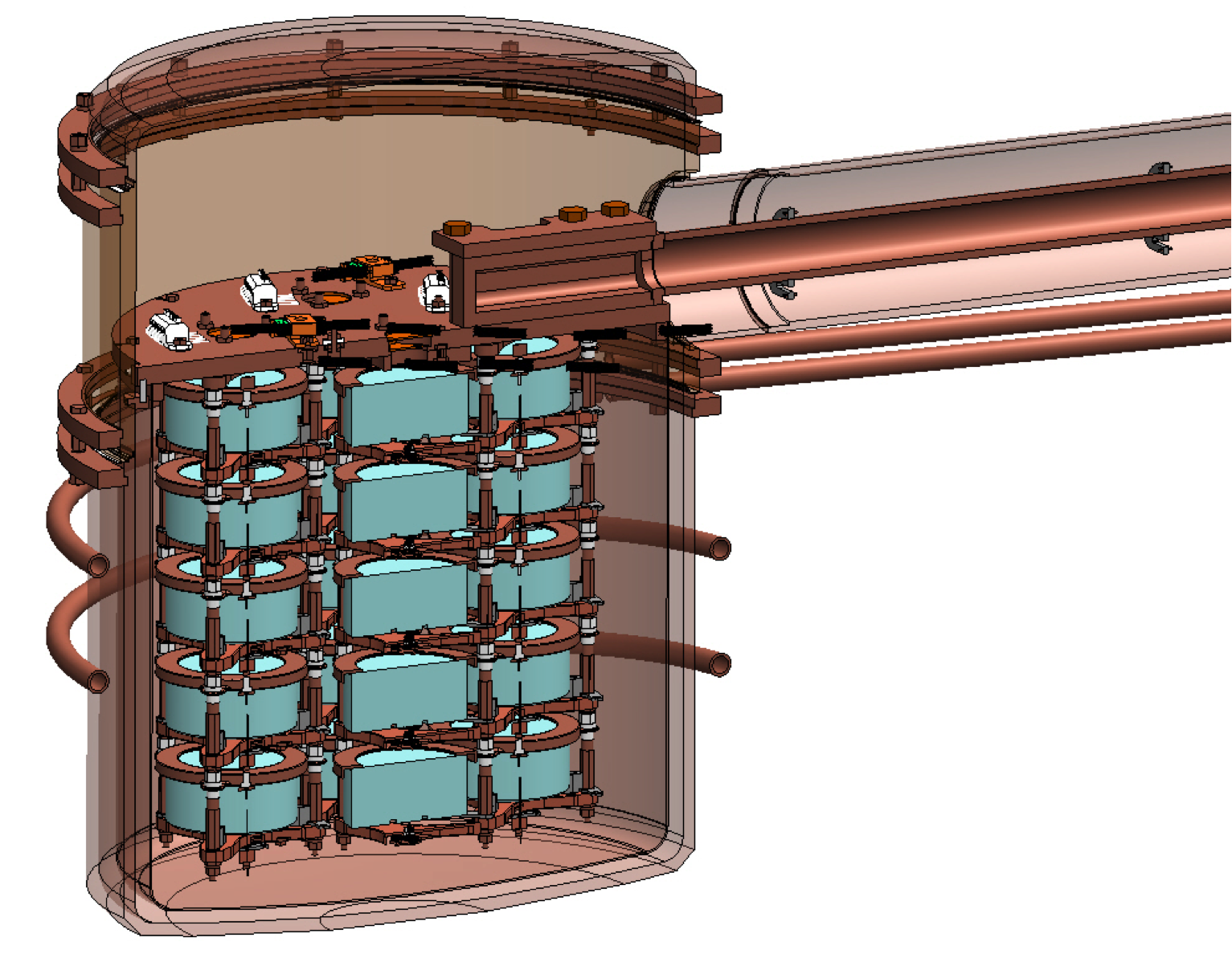 A 3D model of a cryostat of detectors for the Majorana Demonstrator experiment.